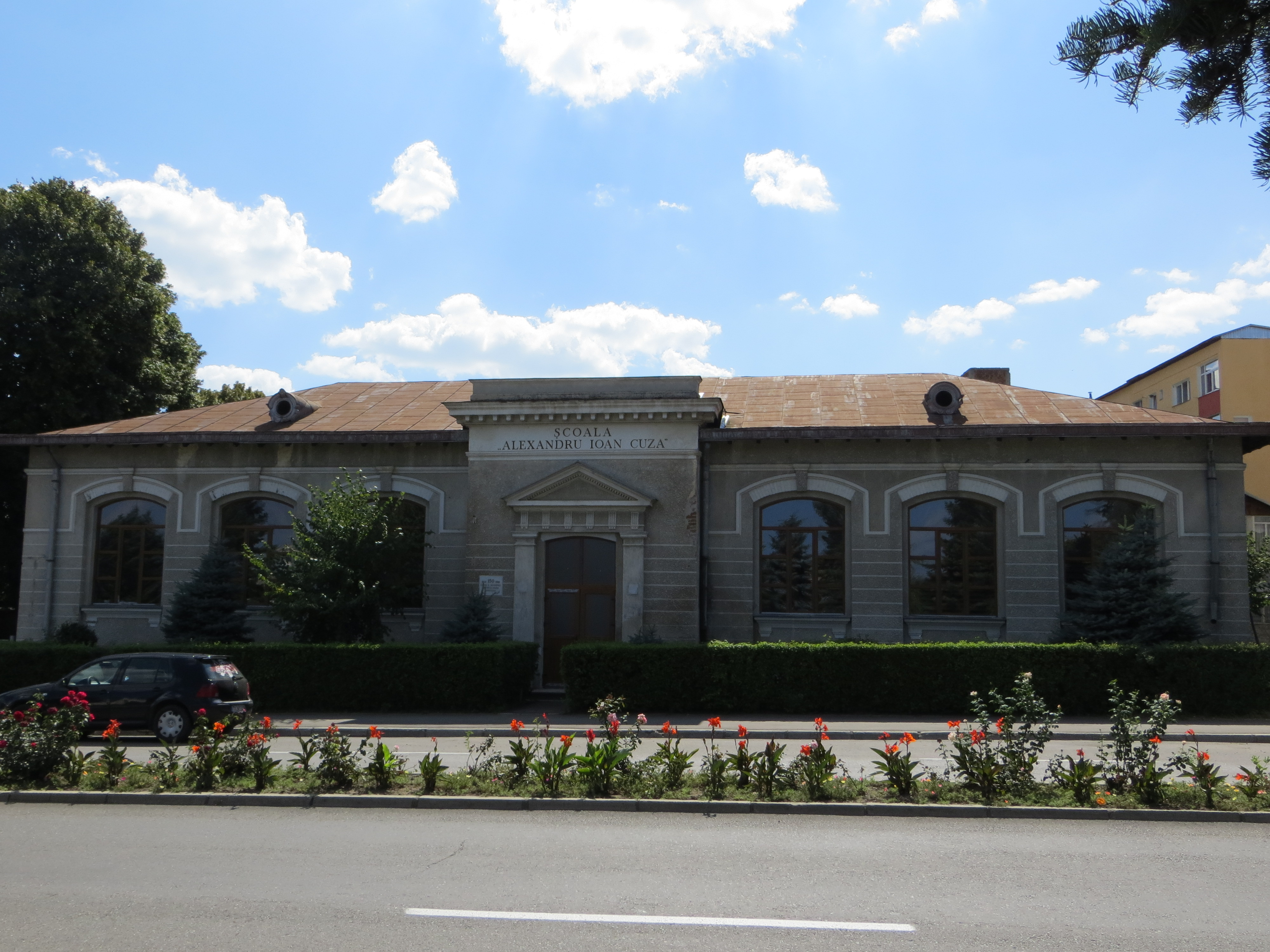 Alexandru Ioan Cuza School, Fălticeni, Suceava County, Romania.